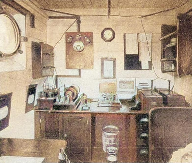 Wireless telegraphy station on board the packet steamer Républic around 1909. One of the first applications of radio was on board ships, to keep in touch with the mother country and call for rescue if they were sinking. The device on the desk is a spark-gap radio transmitter. On the left side is the tuned circuit and spark gap, consisting of 4 Leyden jars and a coil of wire. The boxes on the right side are induction coils providing the high voltage to power the transmitter. In the center is the receiving equipment. The meter on the wall at top left is a hot-wire ammeter to measure the antenna current.